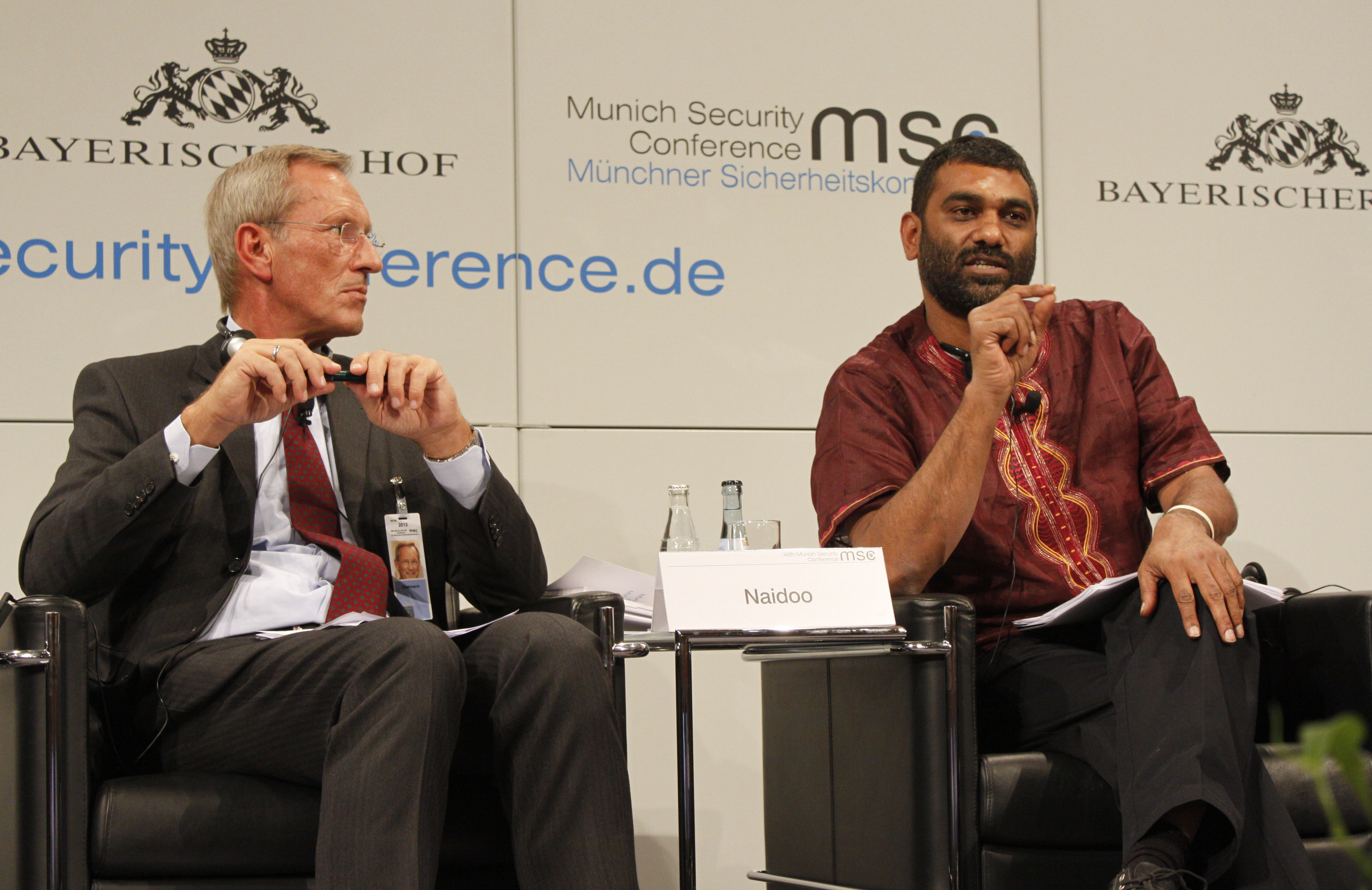 48th Munich Security Conference 2012: Michael Diekmann (le), Chairman of the Bord Management, Allianz SE, Member of the Advisory Council, Munich Security Conference, and Kumi Naidoo (ri), Executive Director, Greenpeace International, Amsterdam.